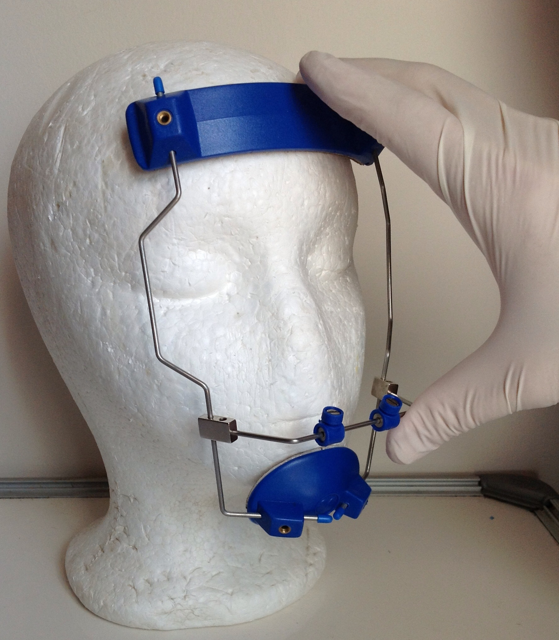 Protraction facemask, facemask, protraction mask, orthopaedic facemask, Delaire mask are many names designating the same appliance. Delaire facemask. The protraction facemask is an appliance commonly used in orthodontic Class III cases.